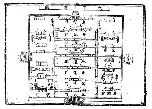 The map of the house of the prince of Dai